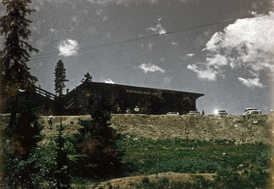 Berthoud Pass Lodge, July 1963, Carey family photo taken during cross country trip in Summer 1963